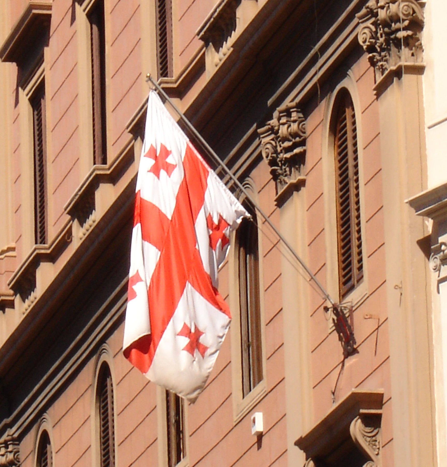 Georgia flag at embassy in Rome, Italy.